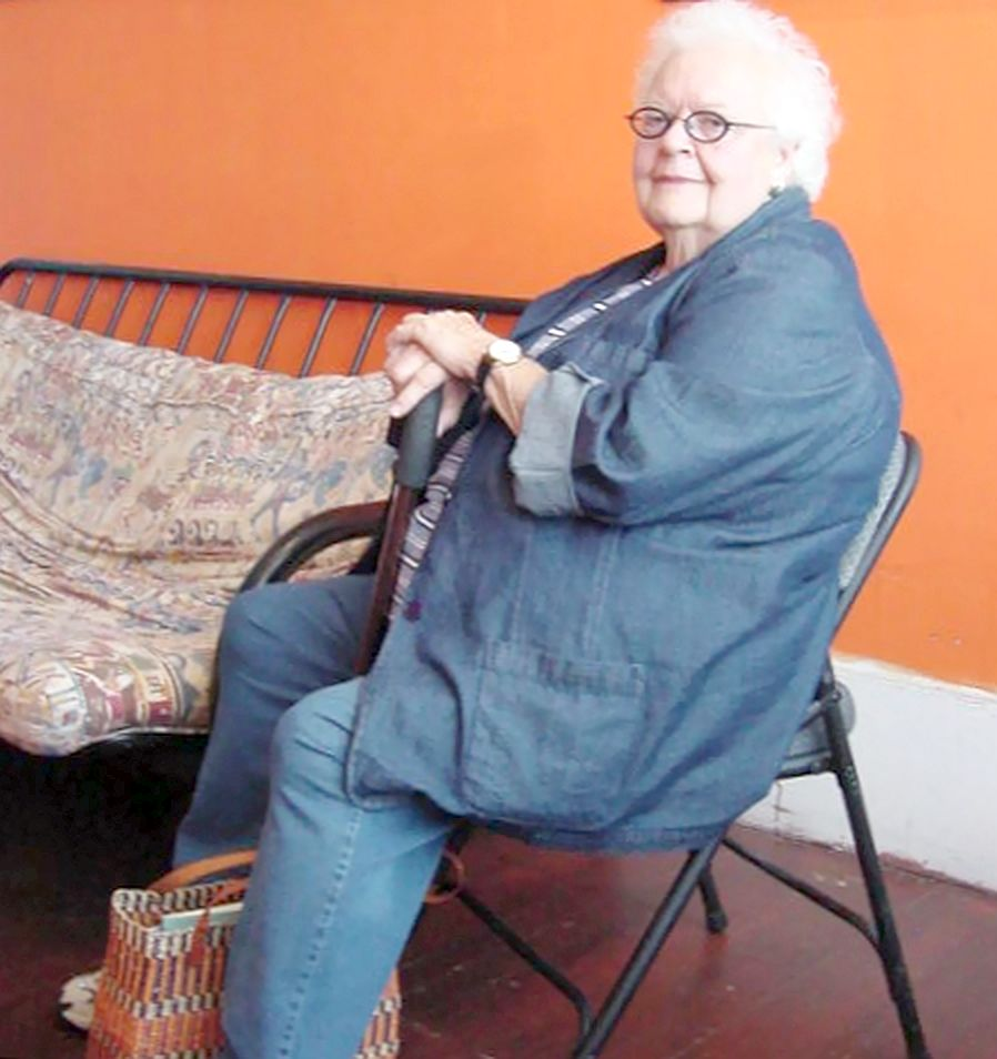 Ronnie Gilbert in 2006. Crop of File:Ronnie gilbert 2006.JPG